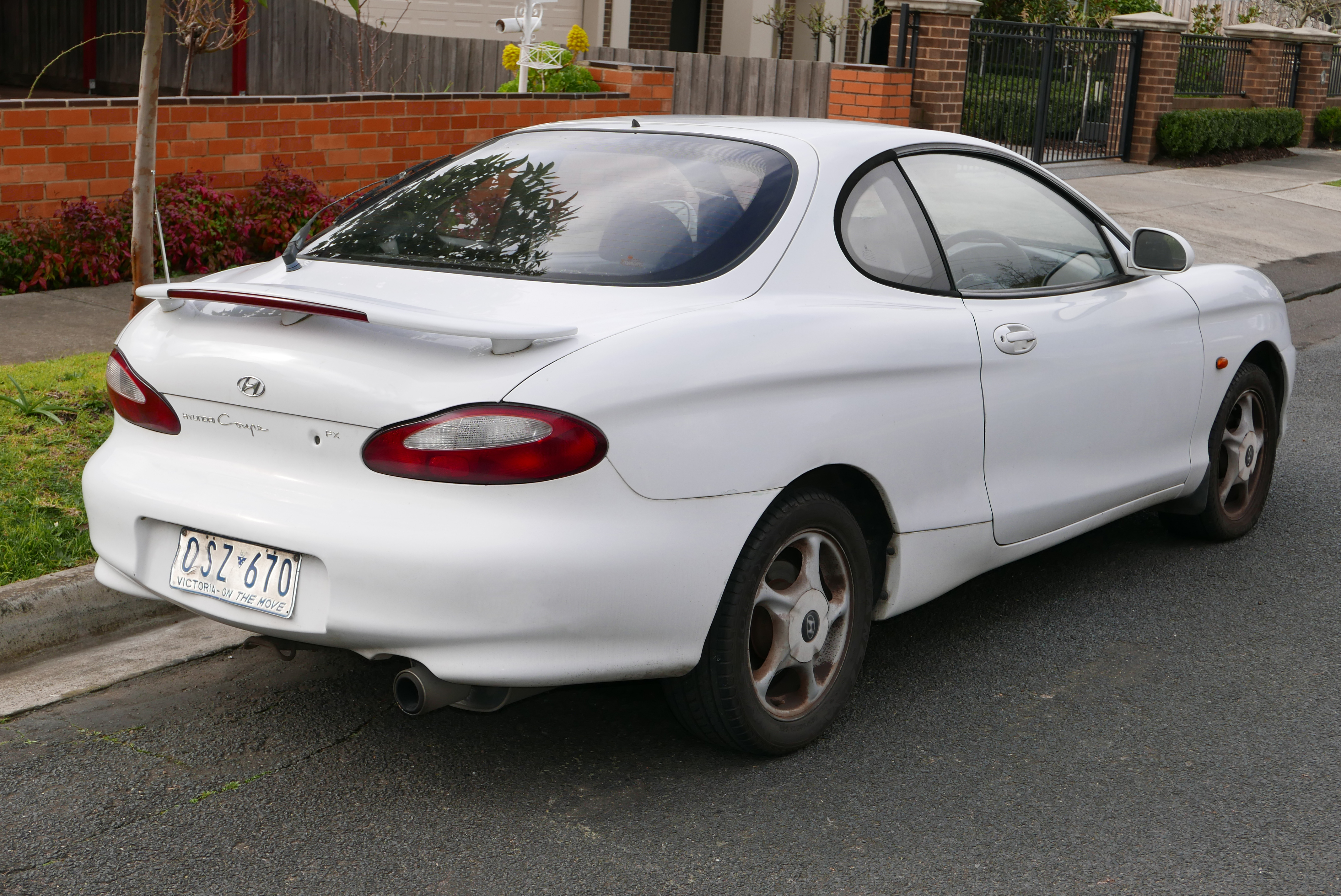 1998 Hyundai Coupe (RD) FX coupe. Photographed in Blackburn North, Victoria, Australia. Vehicle registration enquiry results Jurisdiction Victoria Registration OSZ670 Chassis code KMHKG31FPVU051109 Engine code G4GFX650581 Compliance date 1998-01 Year of manufacture 1998